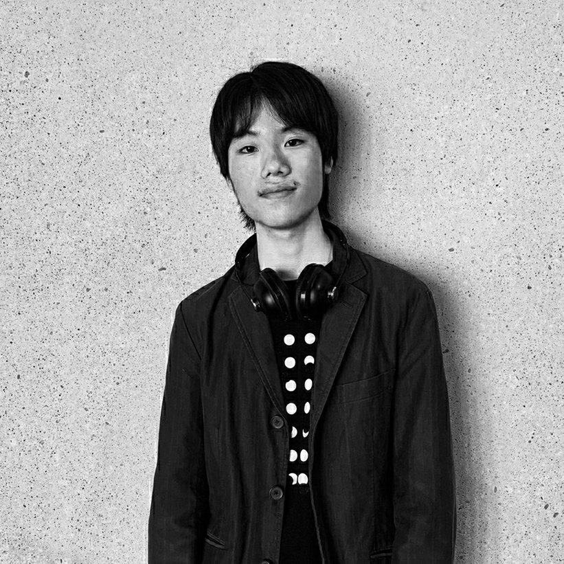 Yuri Umemoto, 2019